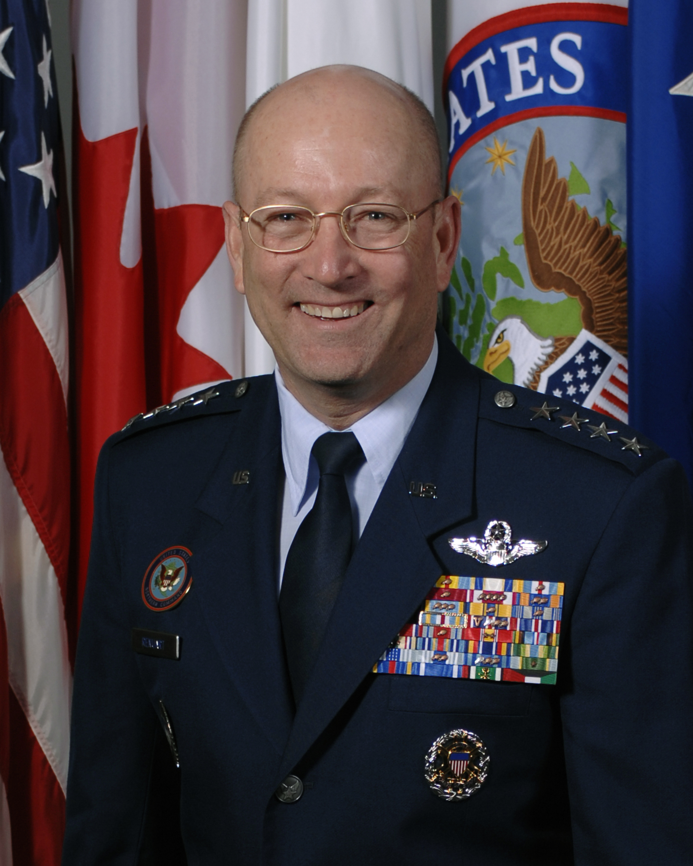 General Victor E. Renuart, Jr., United States Air Force, Commander US Northern Command and North American Aerospace Defense Command.